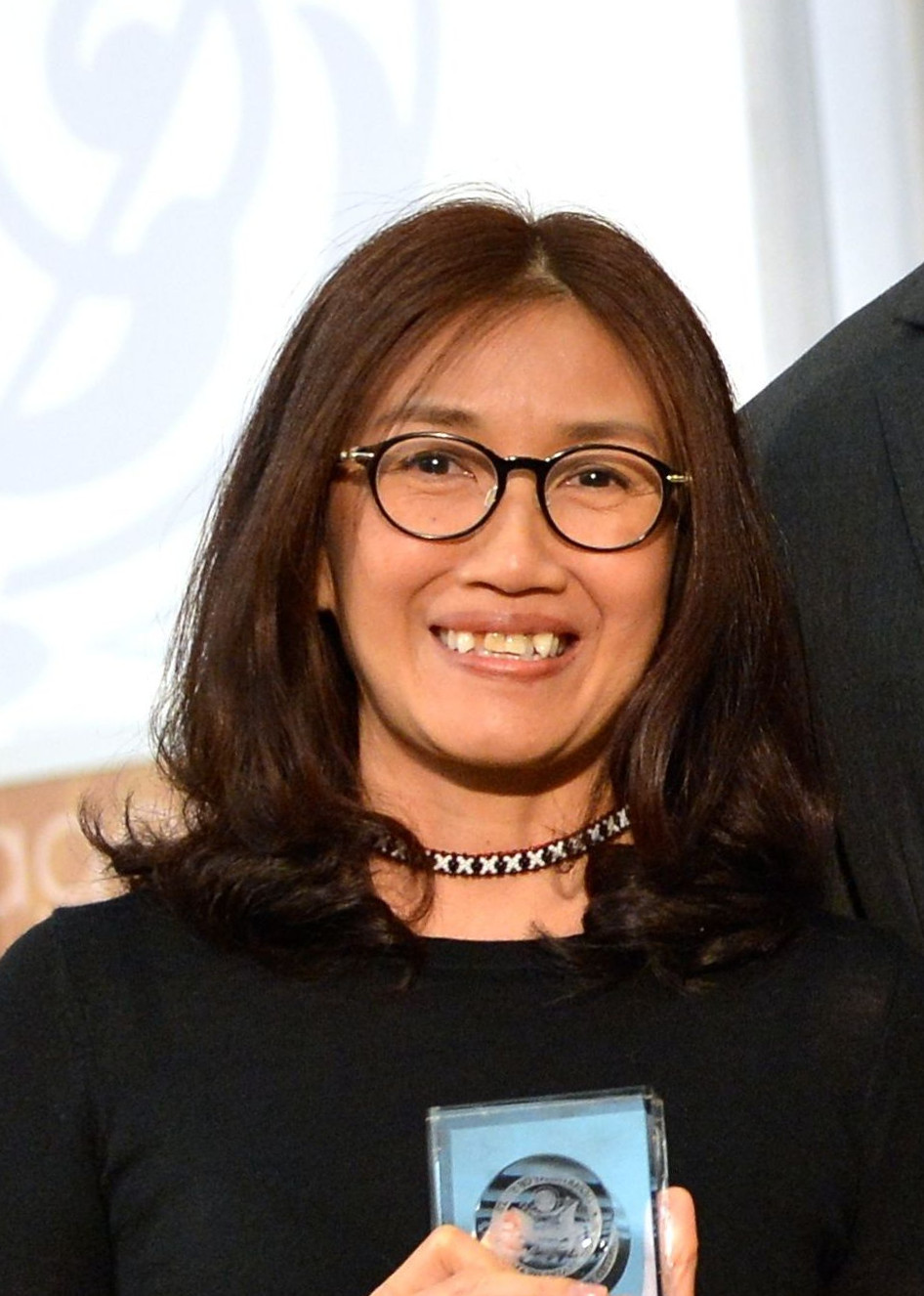 Rodjaraeg Wattanapanit (crop) at International Women of Courage Awards 2016